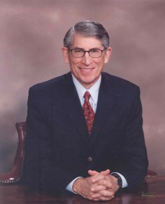 Photo for article on "Lawrence H. Cohn"